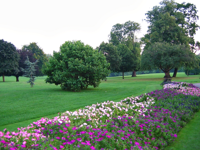 Flower Beds and trees. The flower beds are always colourful and well presented in Cheam park.